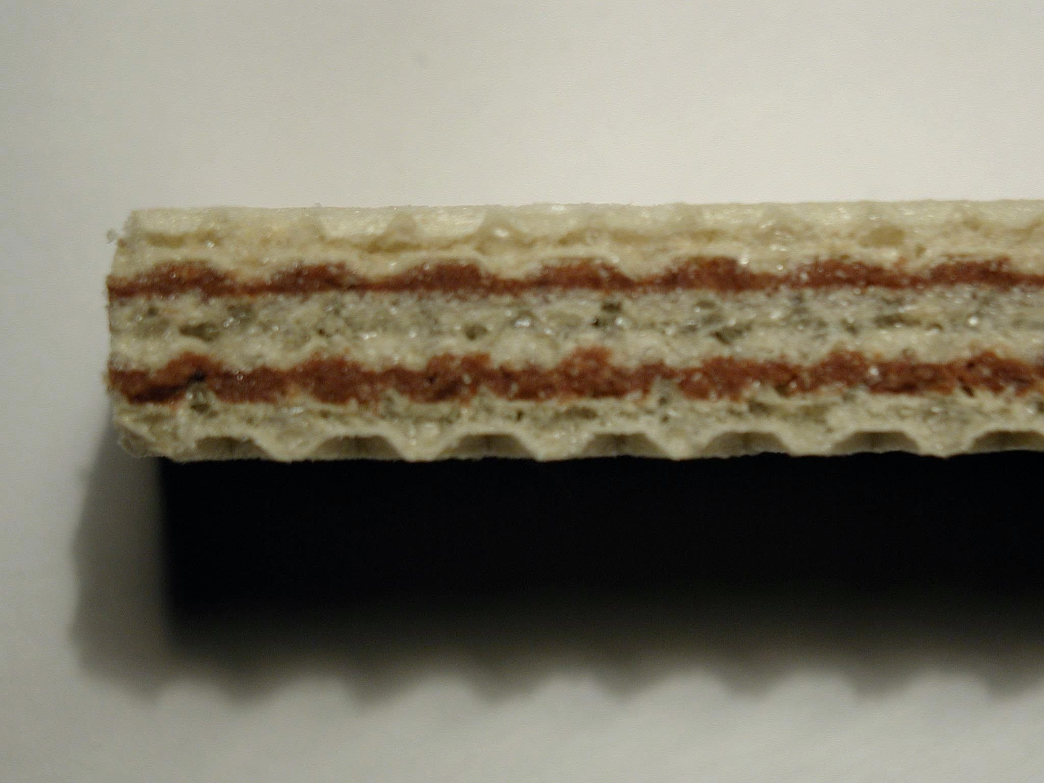 Image title: Biscuit with jam and chocolate Image from Public domain images website